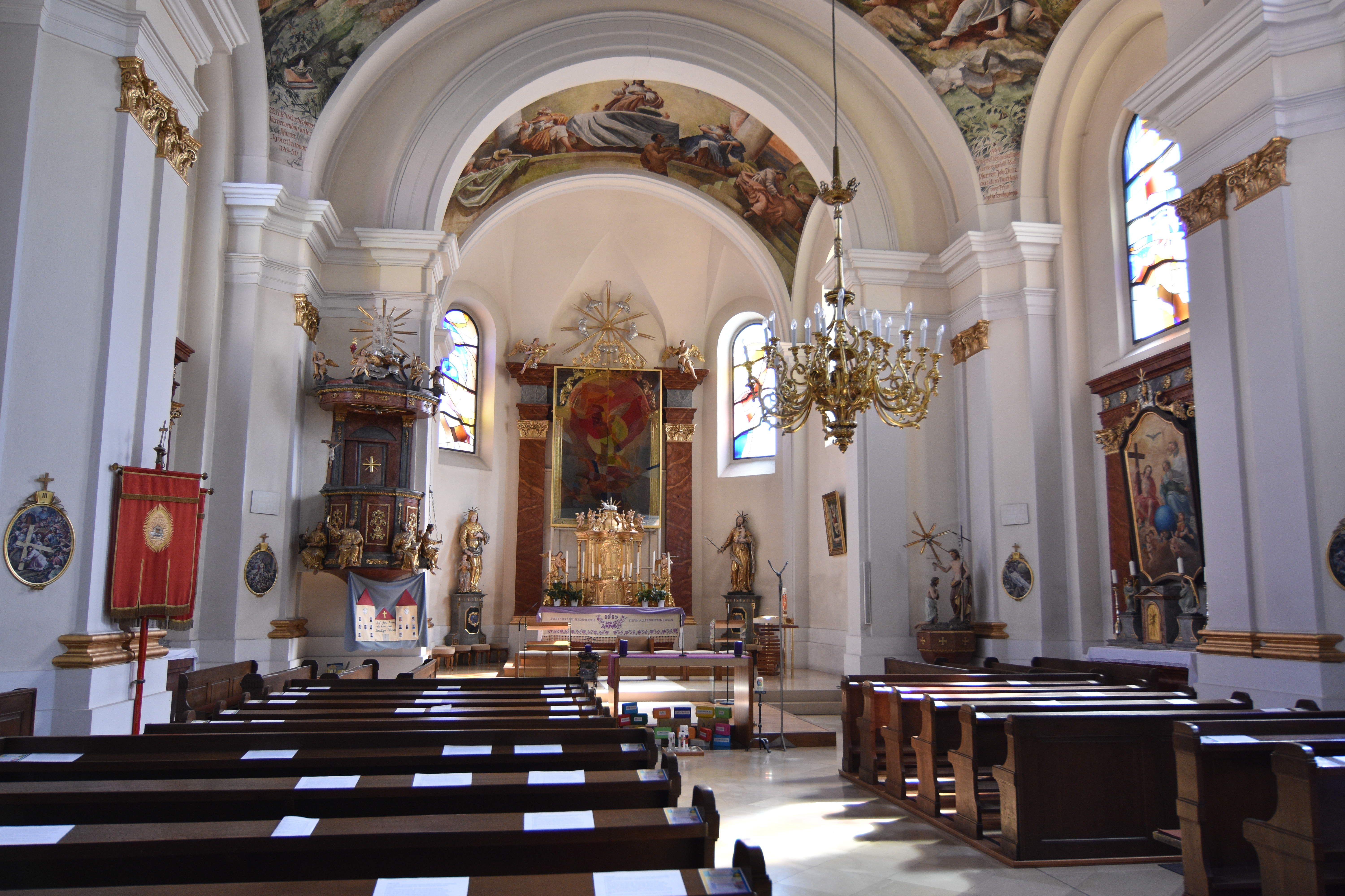 Saint Michael Church (Großpetersdorf) - Interior